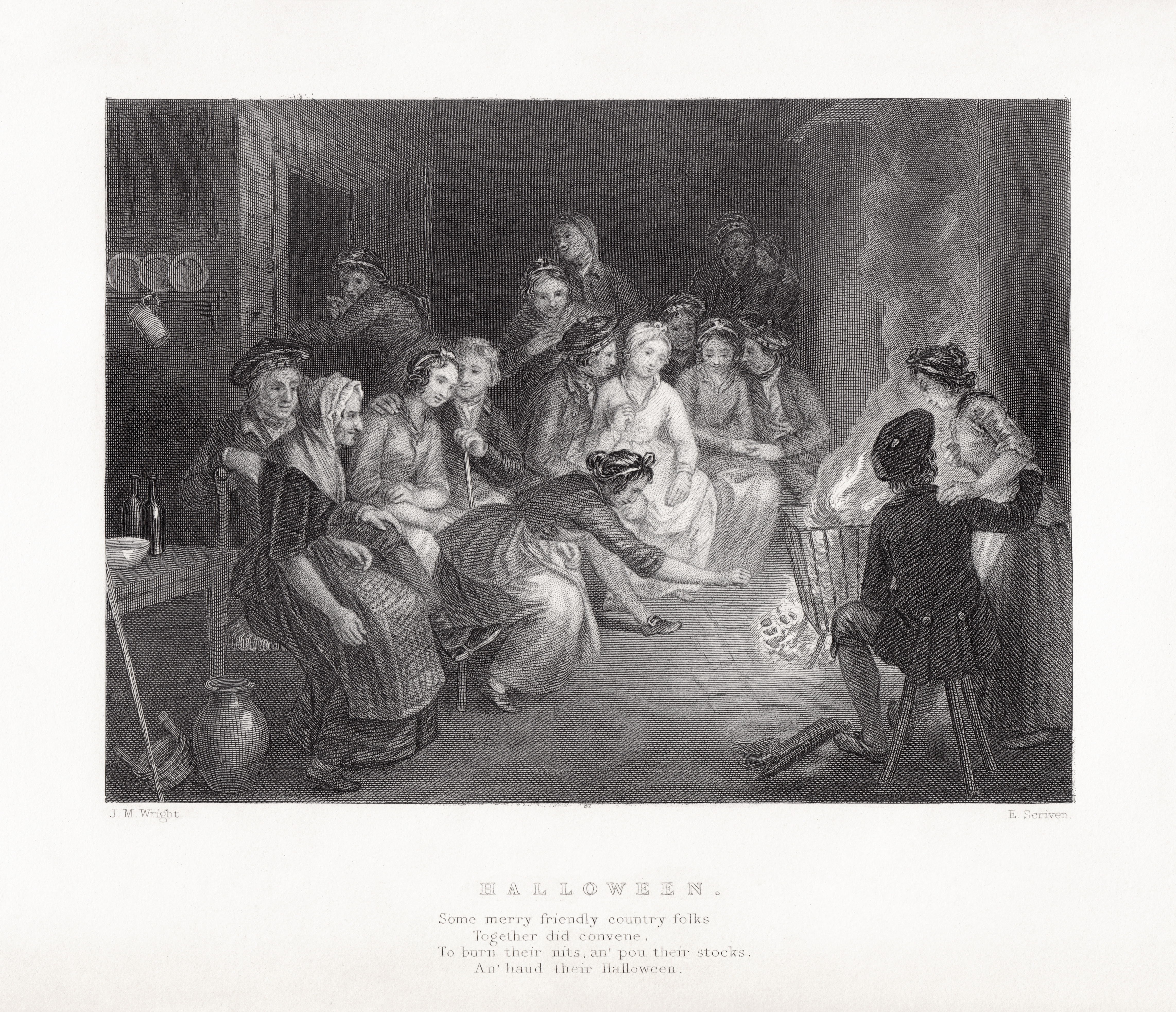 Illustration to Robert Burns' poem Halloween by J.M. Wright and Edward Scriven. The Complete Works of Robert Burns: Containing the Poems, Songs, and Correspondence. Illustrated By W.H. Bartlett, T. Allom, and Other Artists. With a New Life of the Poet, and Notices, Critical and Biographical[1] by Allan Cunningham. Published in London by George Virtue. No year is given explicitly, but "James Gibson 1856" has been handwritten inside the front cover, it's dedicated to a MP, Archibald Hastie of Paisley, who was no longer a MP by 1857, and some of the artists and engravers were dead before 1842. As such, I'm going with c. 1841 as the year, though it could be as late as 1856, when James Gibson evidently acquired it. Scanned at 600dpi.